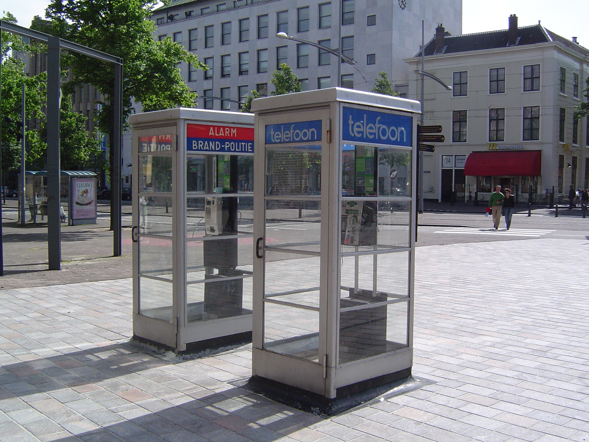 Phonebooth old style, The Hague, Holland